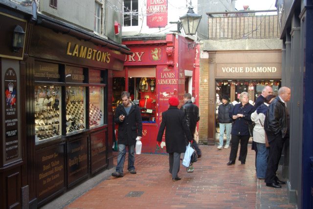 The Lanes, Brighton The Lanes, between the seafront and the Royal Pavilion to the west of Old Steine, is the old fishing village area of Brighton. Today it is a tourist attraction occupied by small independent shops, many of them jewellers.